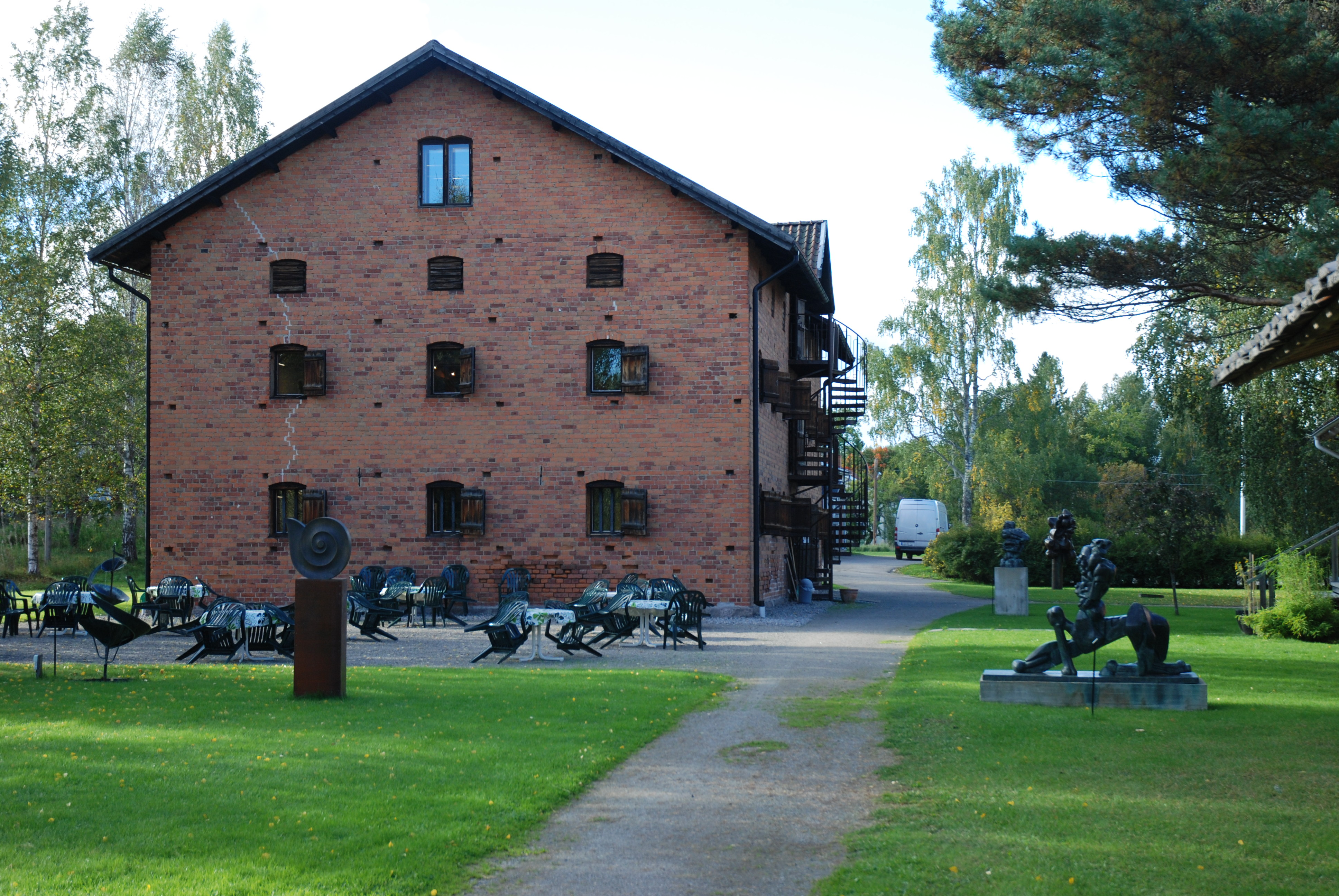 The Museum at Galleri Astley, Uttersberg, Sweden